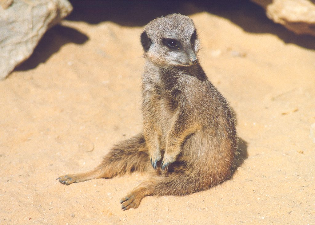 A meerkat (Suricata suricatta), at La Barben zoo, in the south of France.